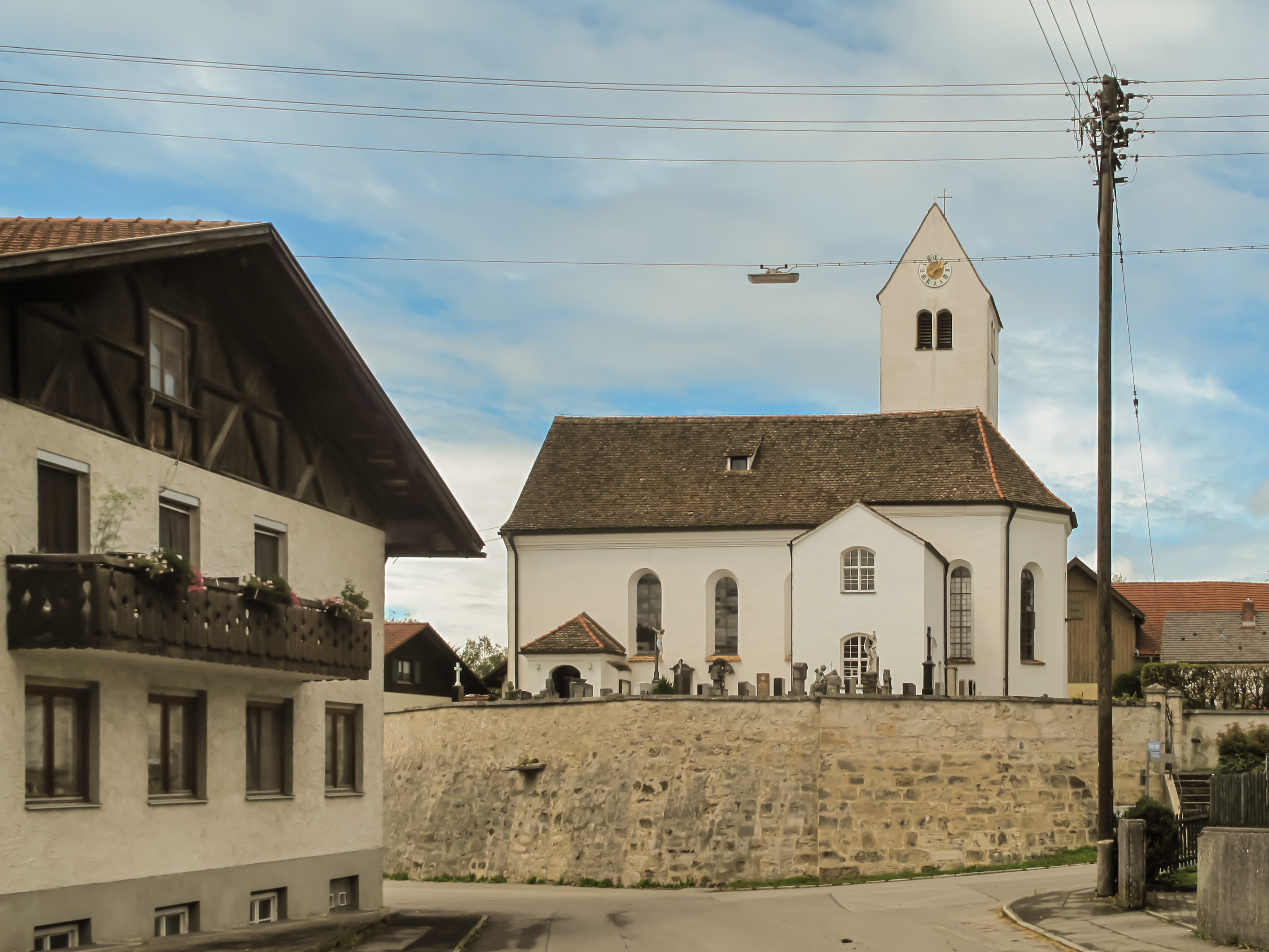 Etting, church katholische Pfarrkirche Sankt Michael